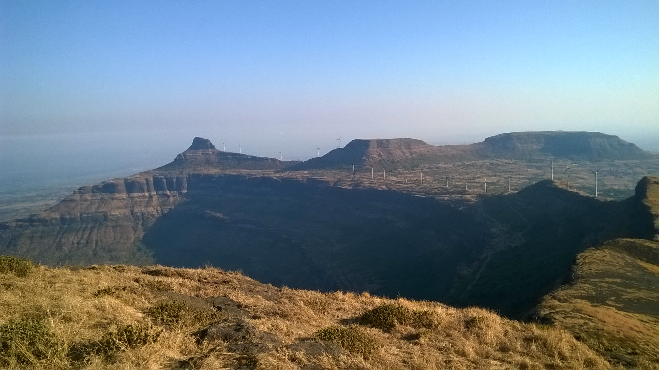 View from Patta Fort